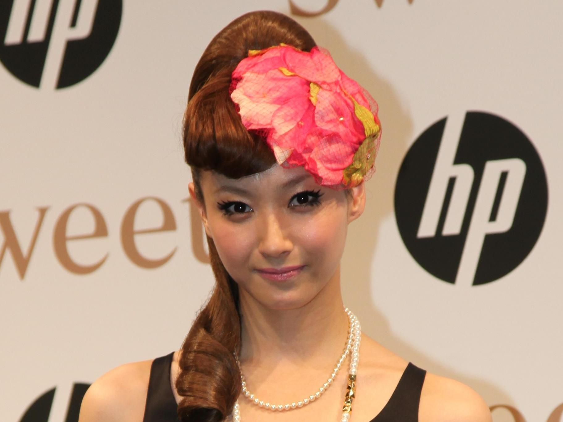 adaptation of the original work by an alternate user, cropped on Miki Fujimoto's face.